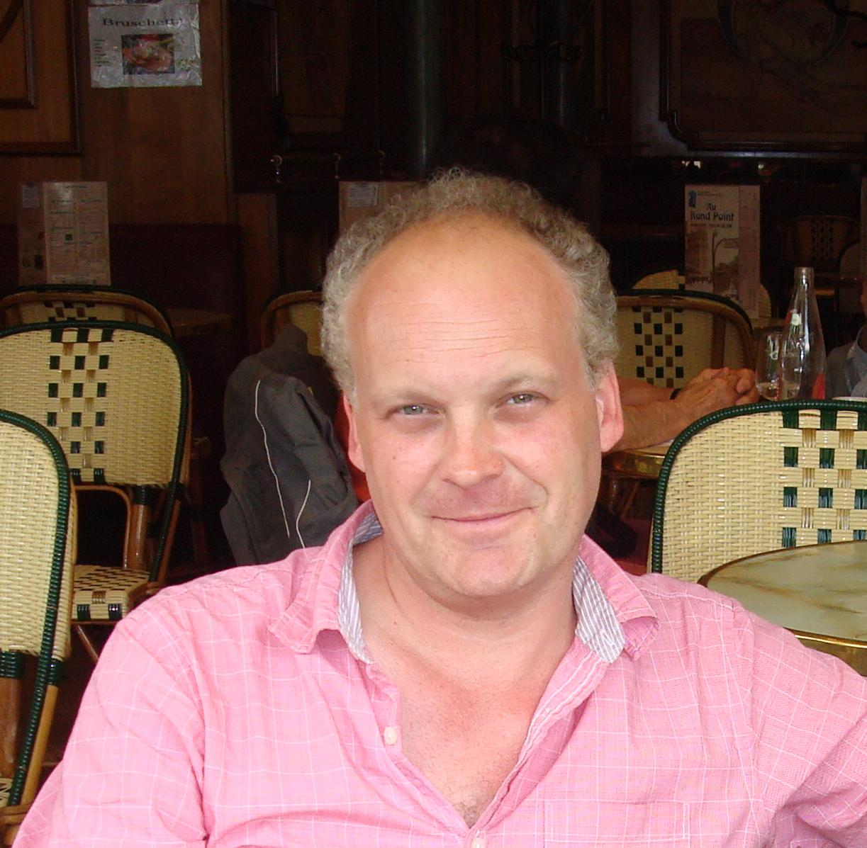 Patrick McGuinness in Venice 2